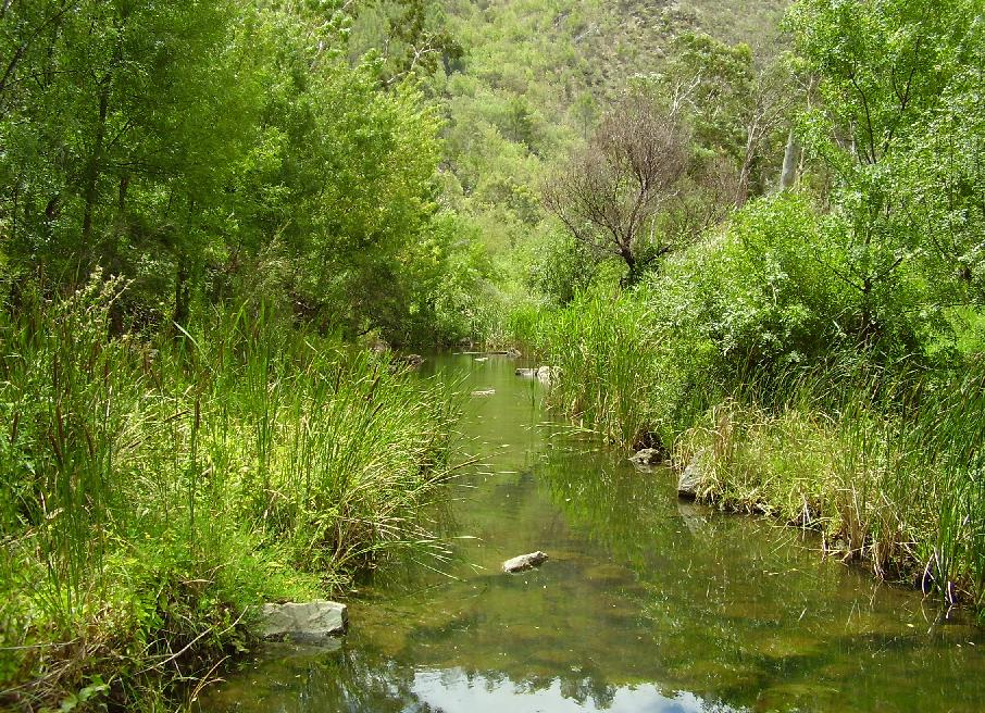 River Torrens at the easternmost end of the linear park (in athelstone ), Taken January 2007 by Peripitus. Cropped and downsampled from original Originally uploaded to wikipedia then re-uploaded here